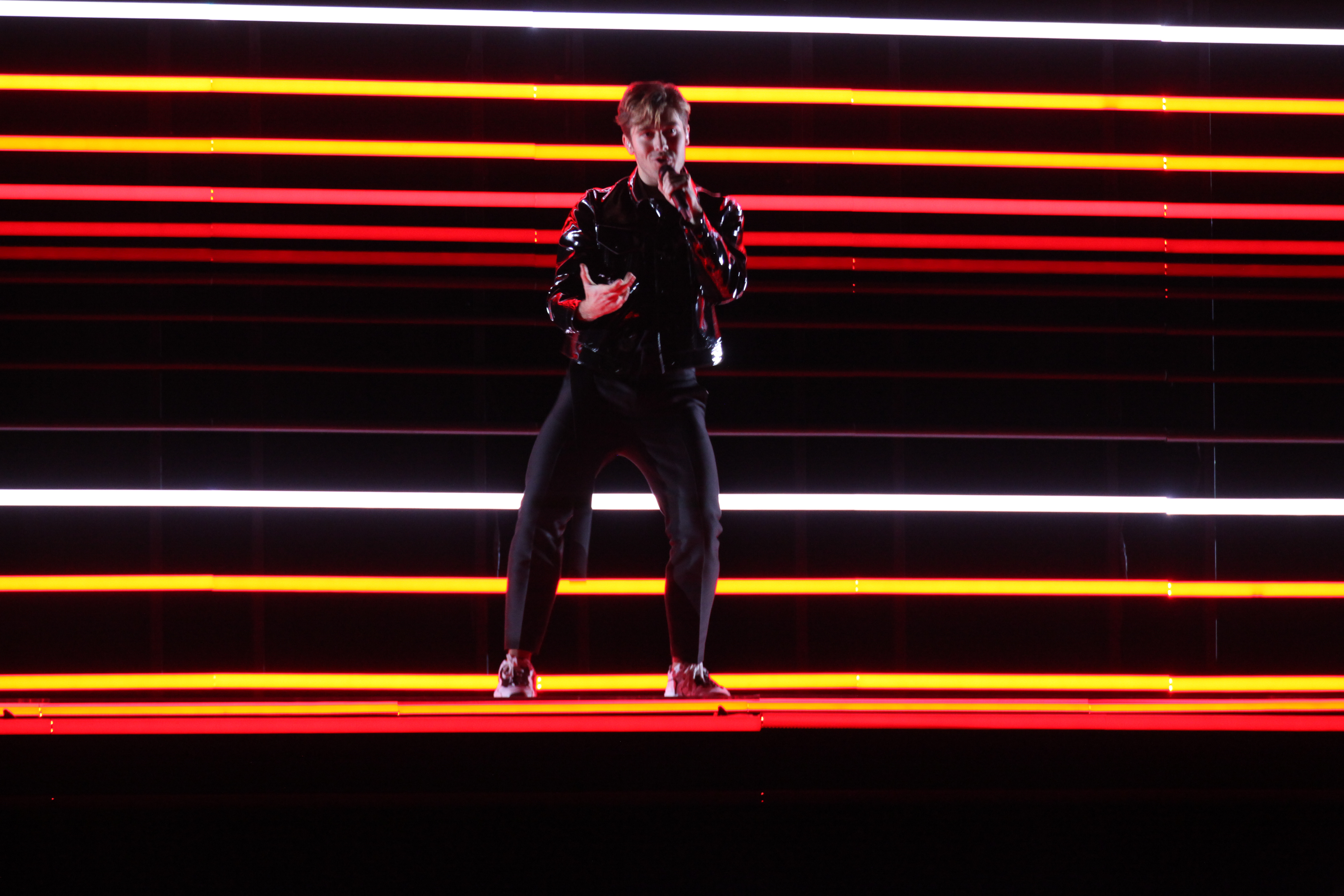 Benjamin Ingrosso representing Sweden with the song "Dance You Off" during a rehearsal before the grand final of the Eurovision Song Contest 2018 in Lisbon.